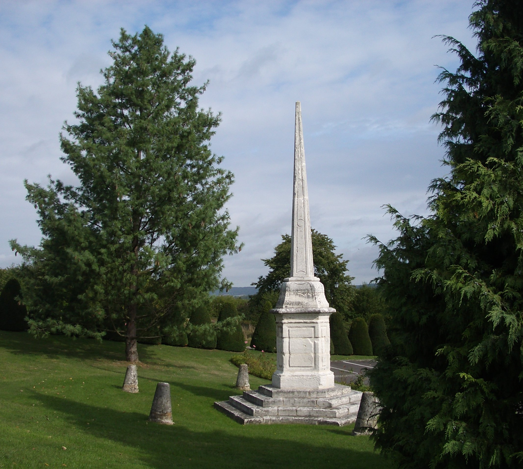 Obélisque du Duc de Belle-Isle Saint-Marcel (Eure)